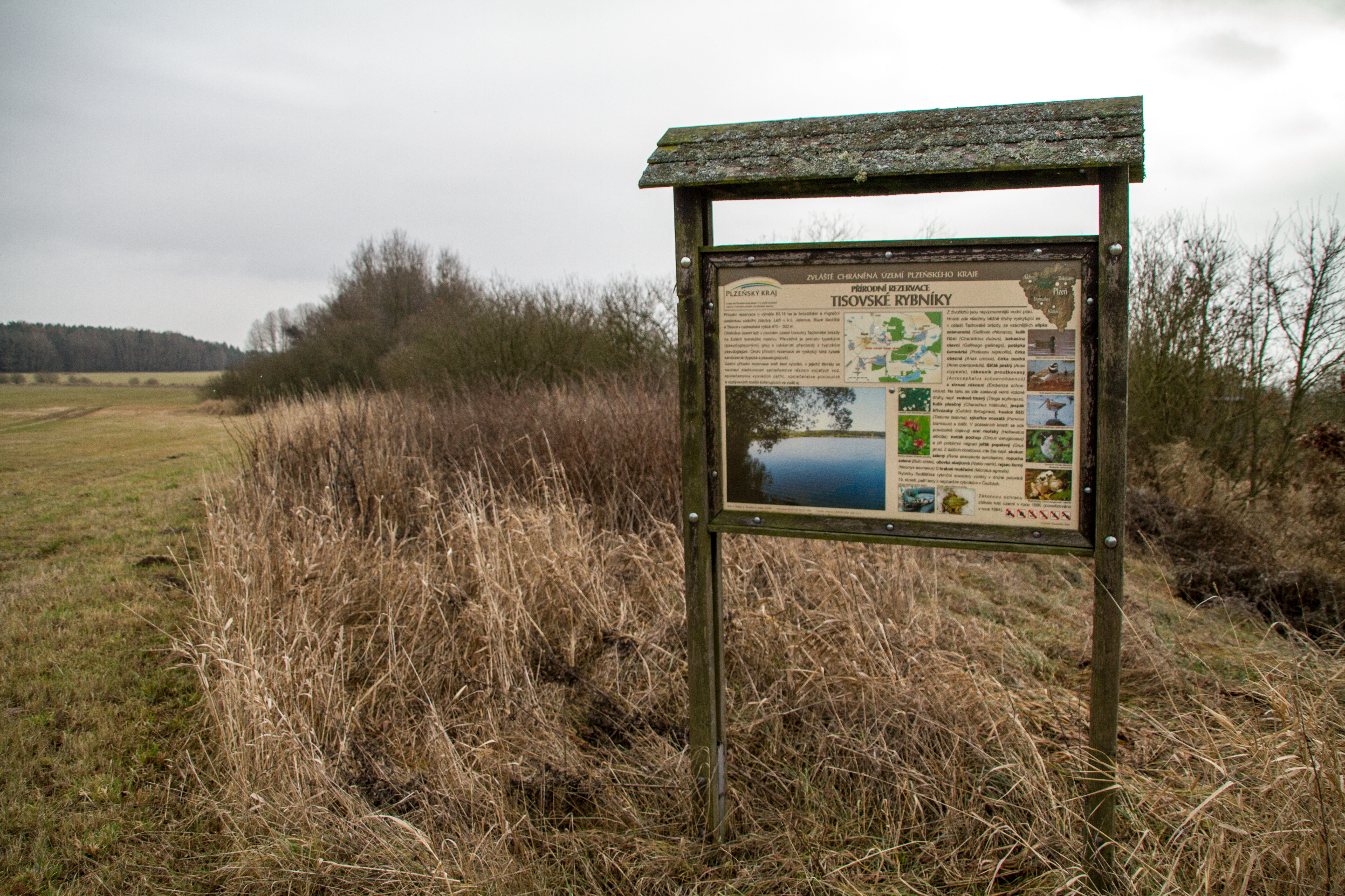 Informační cedule poblíž Bezděkovského rybníka